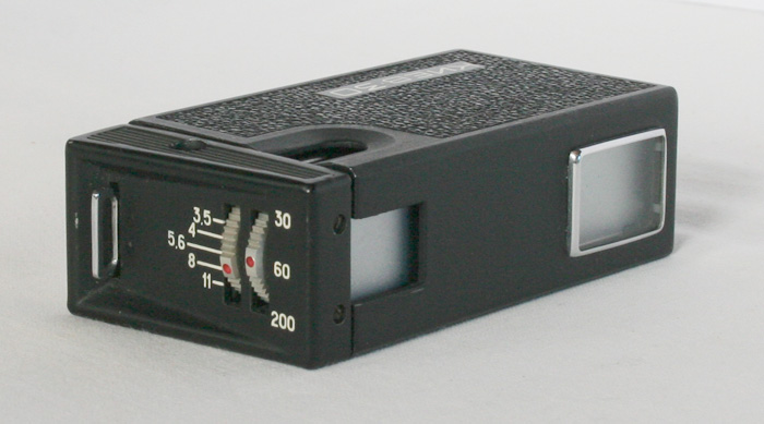 Kiev-30 16-mm camera, improved version of Kiev-Vega and Vega-2